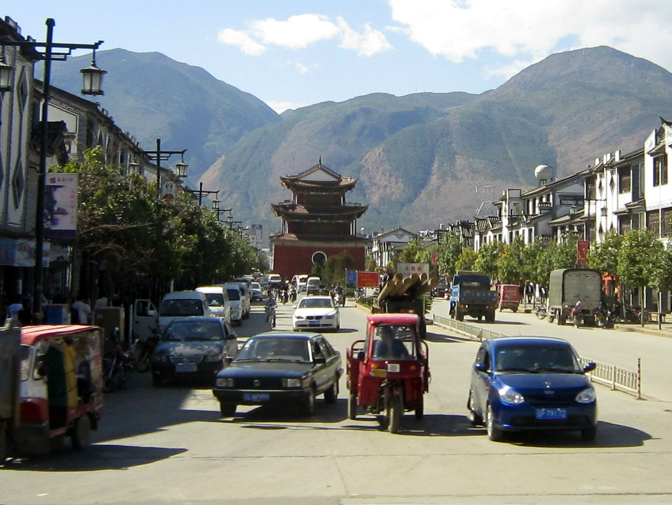 The Yunhe Pagoda in Heqing, Yunnan, China